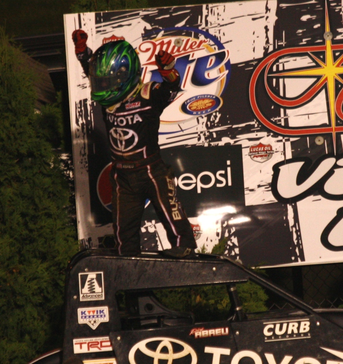 USAC Midget car national driver Rico Abreu celebrates winning at Angell Park Speedway.